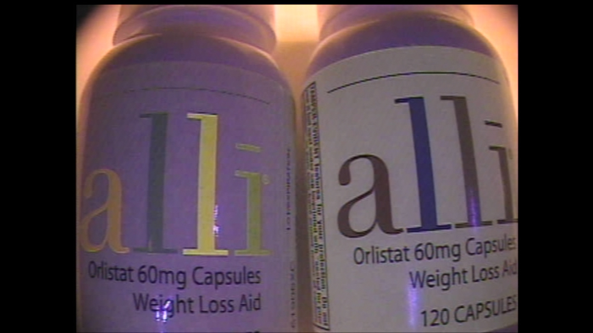 CD-3 shows visible differences between authentic (right) and counterfeit (left) Alli packaging. CD-3, a small portable device invented by FDA scientists, is being deployed to screen for counterfeit and sub-standard malaria drugs in Sub-Saharan Africa and Southeast Asia. Using wavelengths of light, CD-3 reveals differences between authentic and counterfeit drugs that look the same to the naked eye. To learn more, read this Consumer Update article and watch the video: FDA Invention Fights Counterfeit Malaria Drugs